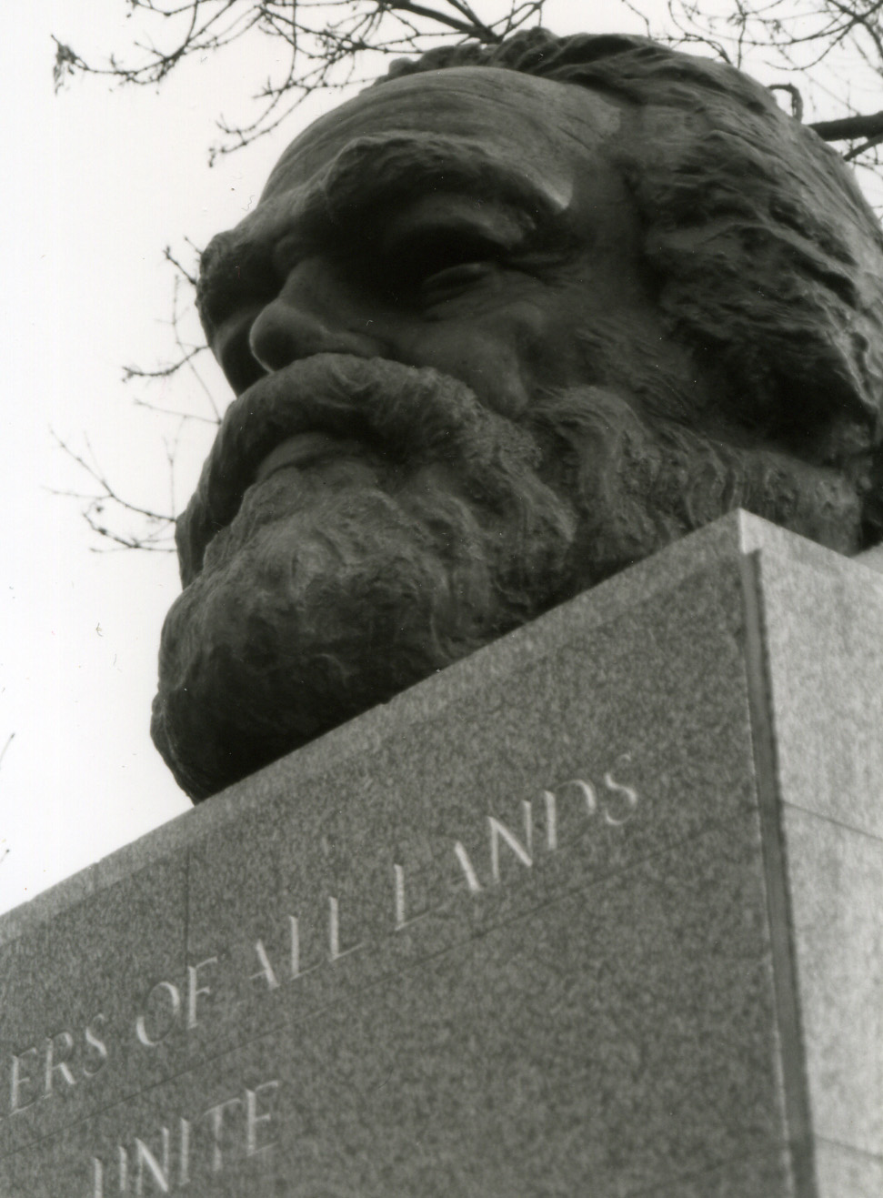 The grave of Karl Marx at Highgate Cemetery, North London..